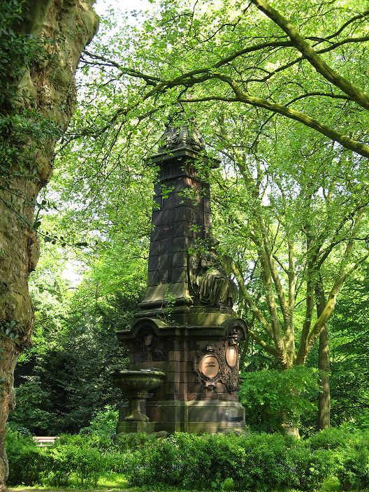 Emporer Fountain (Kaiserbrunnen), Herne/Wanne-Eickel, Germany. The fountain, finished in 1901, glamourises the three emporers Wilhelm I, Friedrich III and Wilhelm II. The fountain is a historic artwork and a symbol of days gone by. Today, in a critical review, we have to relise that none of the emporers could fullfill the expectations of the nation and the politics of strength of Wilhelm II was one of the reasons leading to World War I., Herne